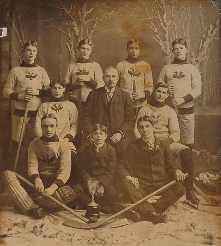 Kenora Thistles circa 1901–02, when the city was known as Rat Portage. Back row: Tom Hooper (right wing), Billy McGimsie (centre), J. Fraser (rover), Tommy Phillips (captain and left wing) Middle row: Matt Brown (point), R. Bunn (President), T. Bellefeuille (cover point) Front row: Fred Dulmage (goaltender), W. Archambault (mascot), C. Hilliard (spare)